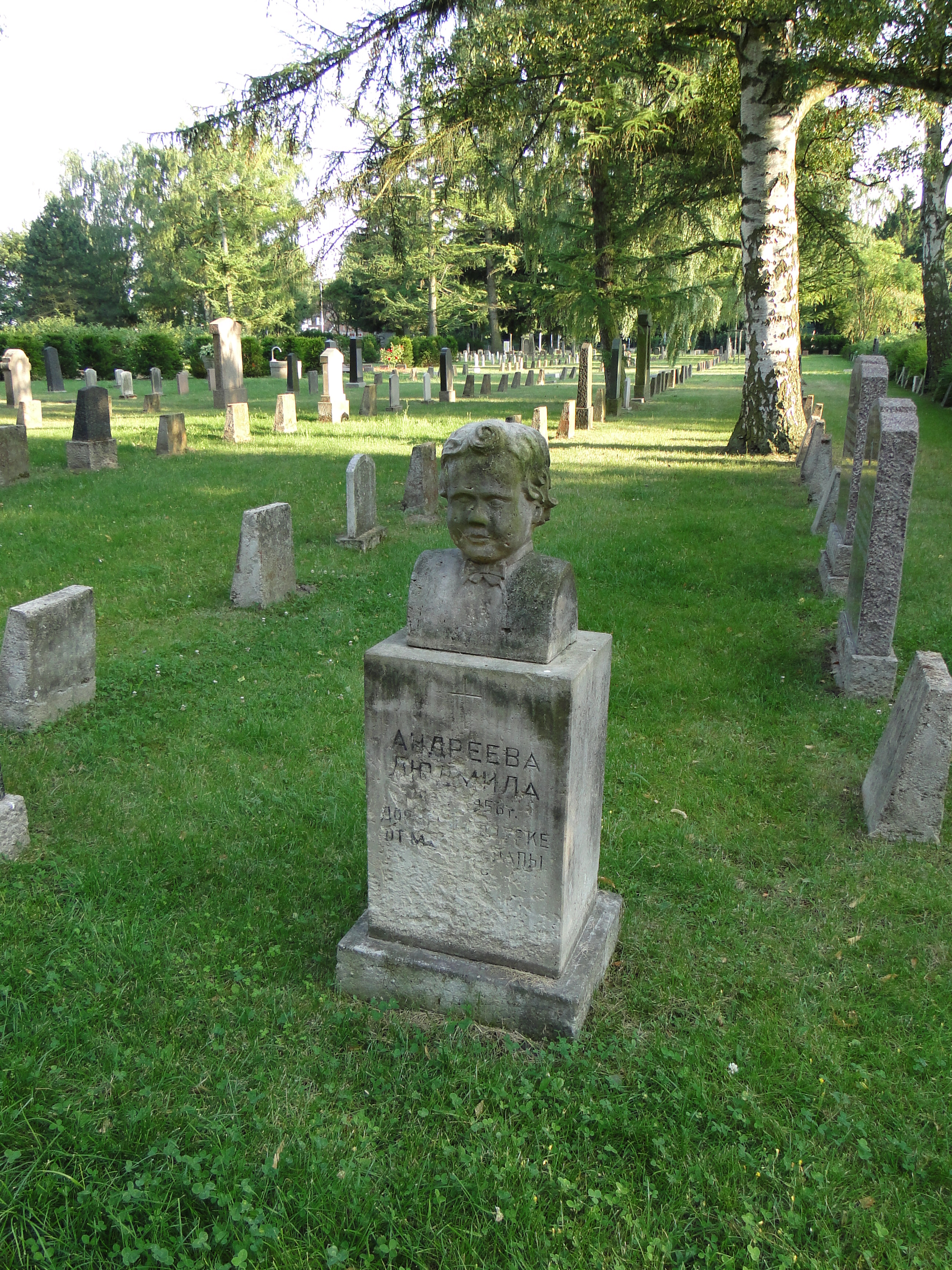 Cemetery for the victims of facism in Schwerin, Mecklenburg-Vorpommern, Germany